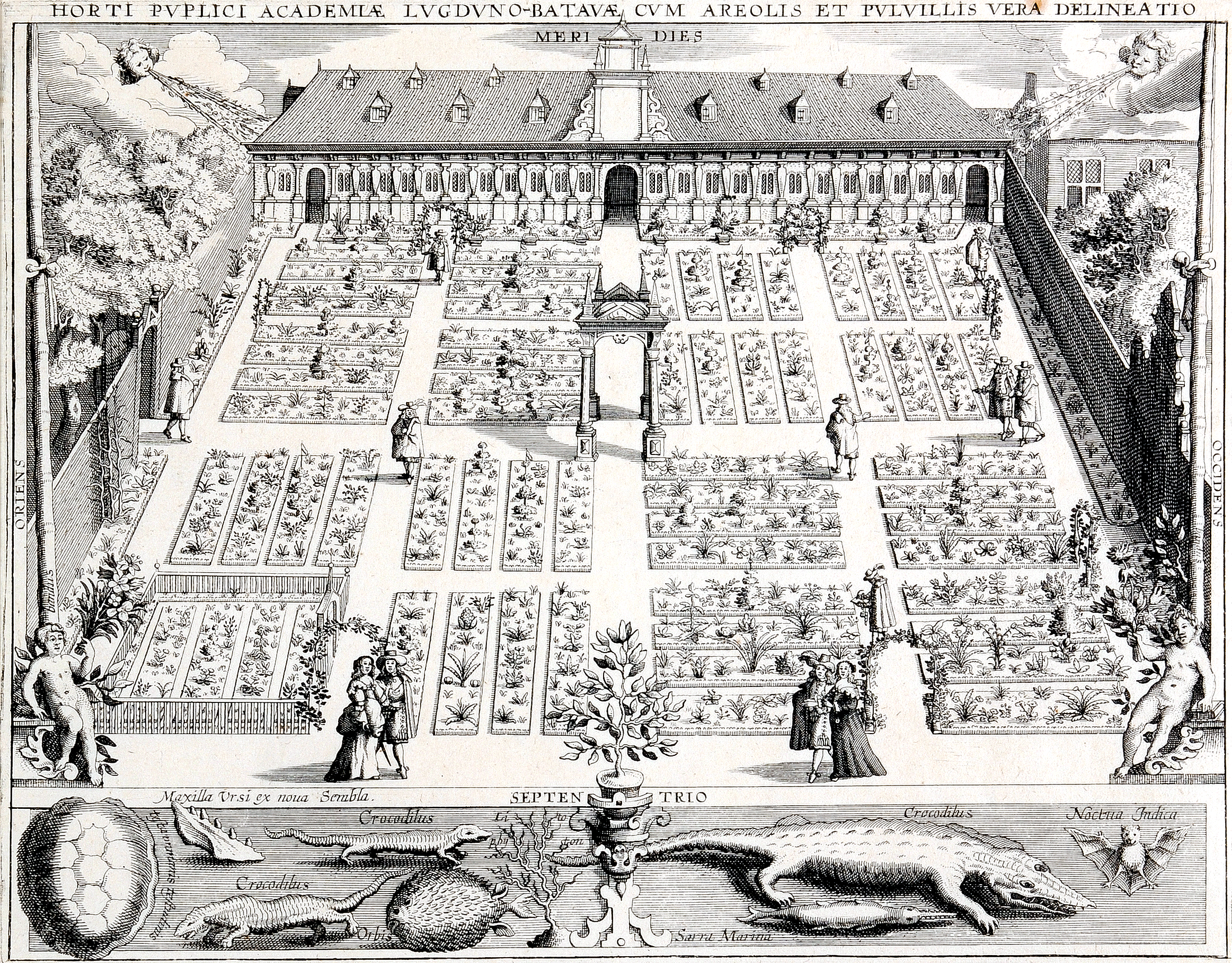 Engraving of the Hortus botanicus in Leiden